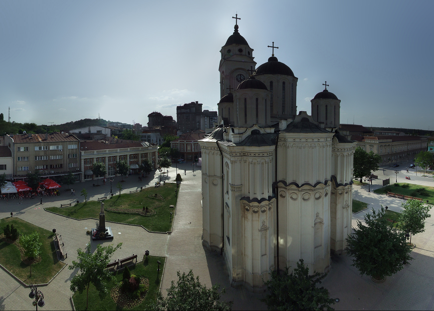 Back side of Cathedral of Saint George in Smederevo. This is a composite of 14 images.